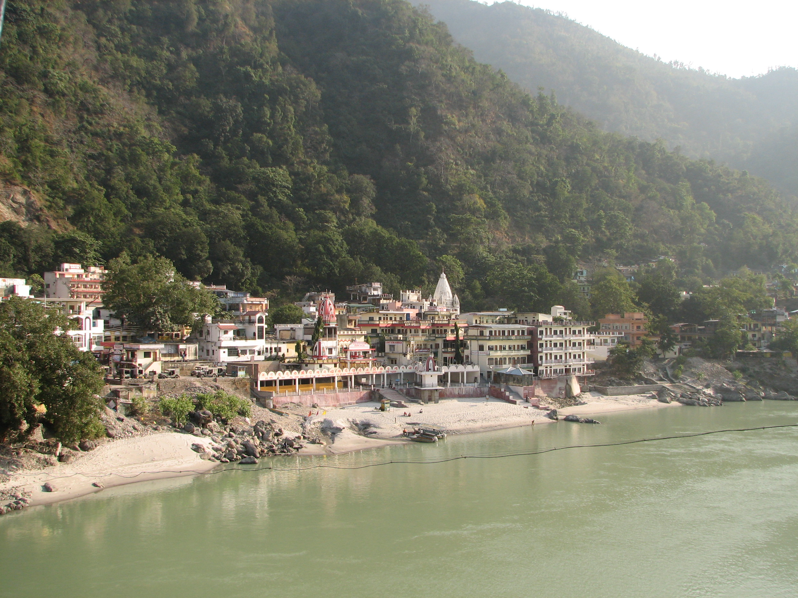 Eastern bank of Lakshman Jhula, Rishikesh.